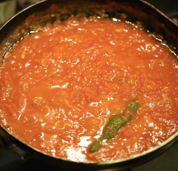 Kalayat bandura or galayat bandura They eat in Palestine and Jordan. It is served in the morning for breakfast or dinner, consisting of tomatoes, olive oil, chili pepper and salt.